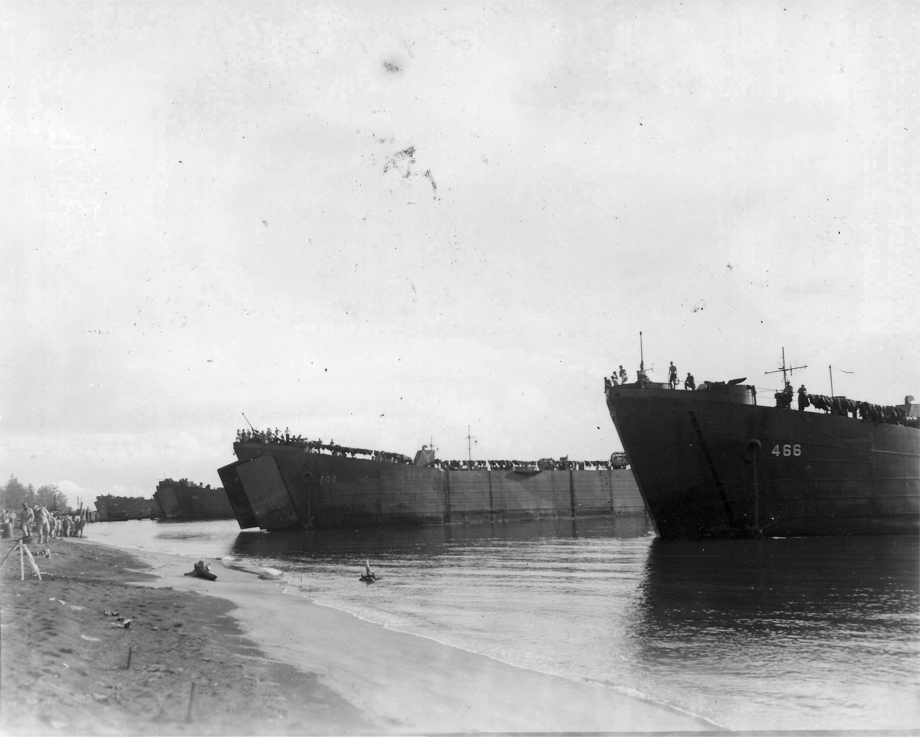 LSTs, including USS LST-466 and USS LST-202, lined up on the beach at Cape Sudest, New Guinea, awaiting loading for the Admiralty Islands action, 12 March 1944. US National Archives photo # III-SC 271517, Box 504, a US Army Signal Corps photo, by T/4 Henry C. Manger, now in the collections of the US National Archives.